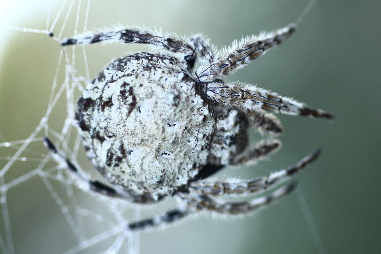 Bark Spider (Caerostris sp.) - showing exoskeleton looks like bark